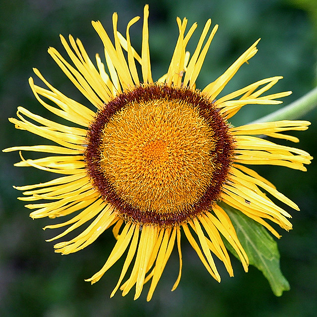 self made, Telekia speciosa taken June of 2007 by Pail Henjum